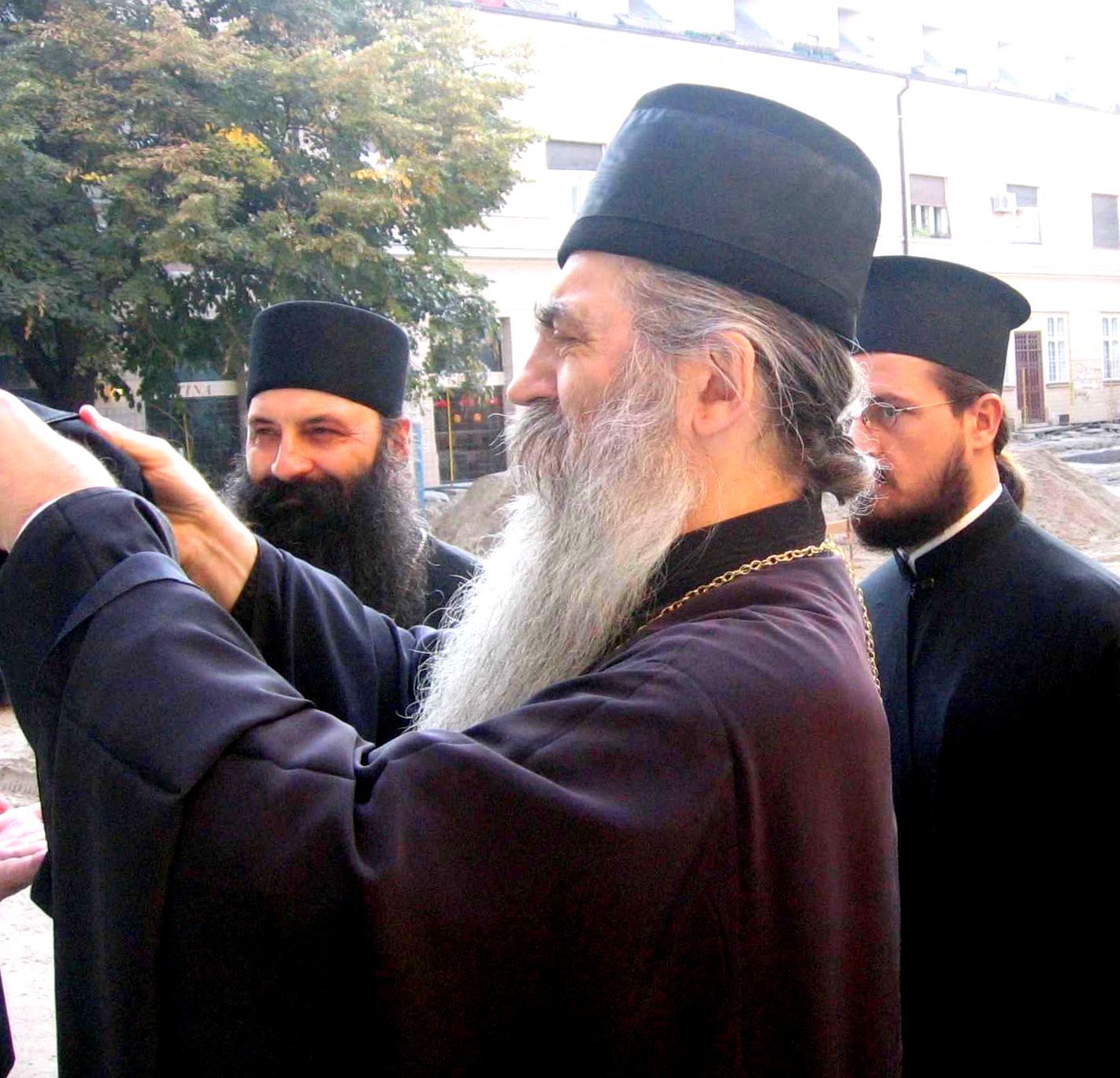 Irinej Bulović in Novi Sad on 12. IX. 2006 on ecumenical meeting in Catholic cathedral